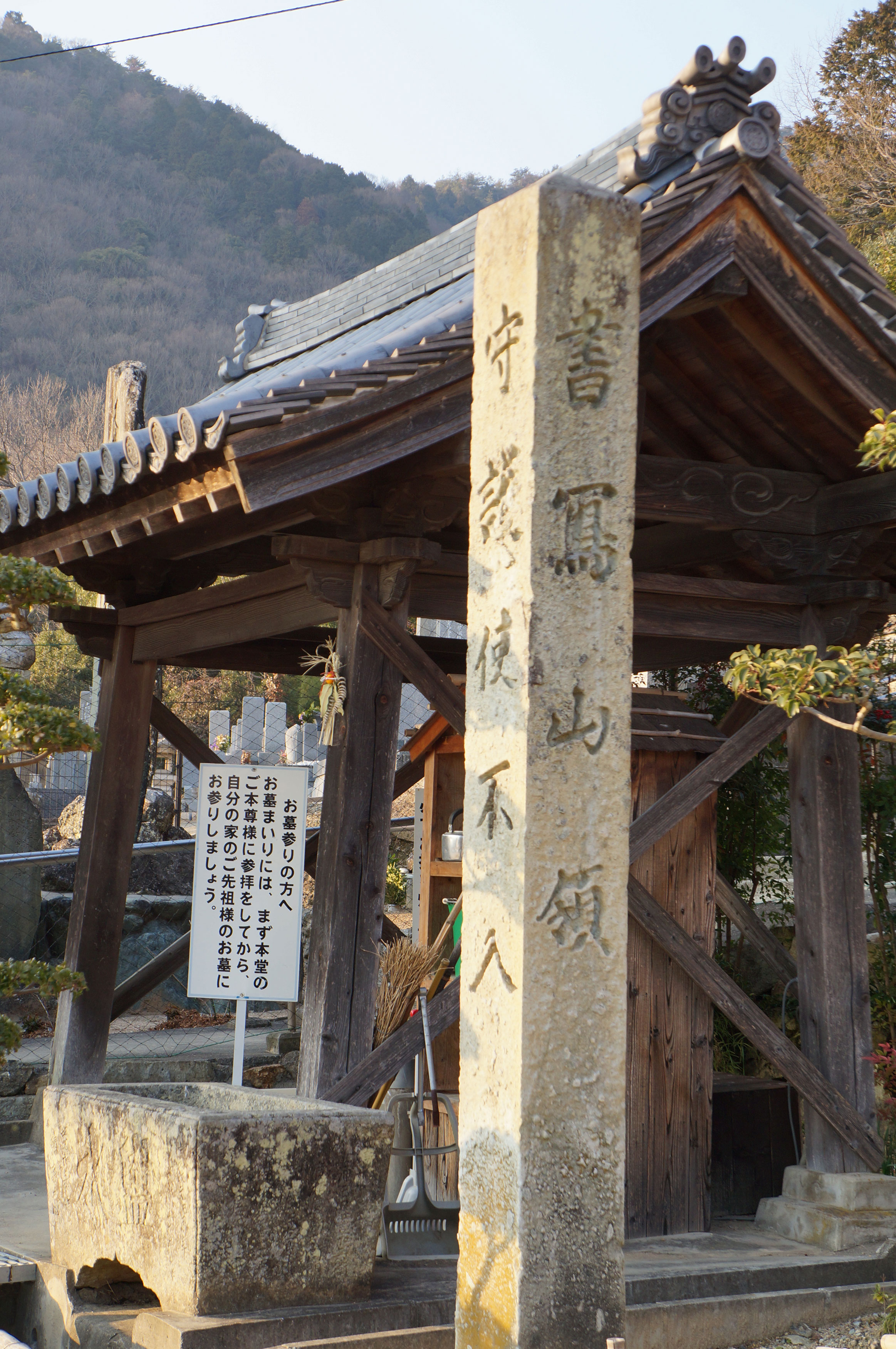 Stone pillar that shows the area of Mt. Shosha, Nyoirin-ji